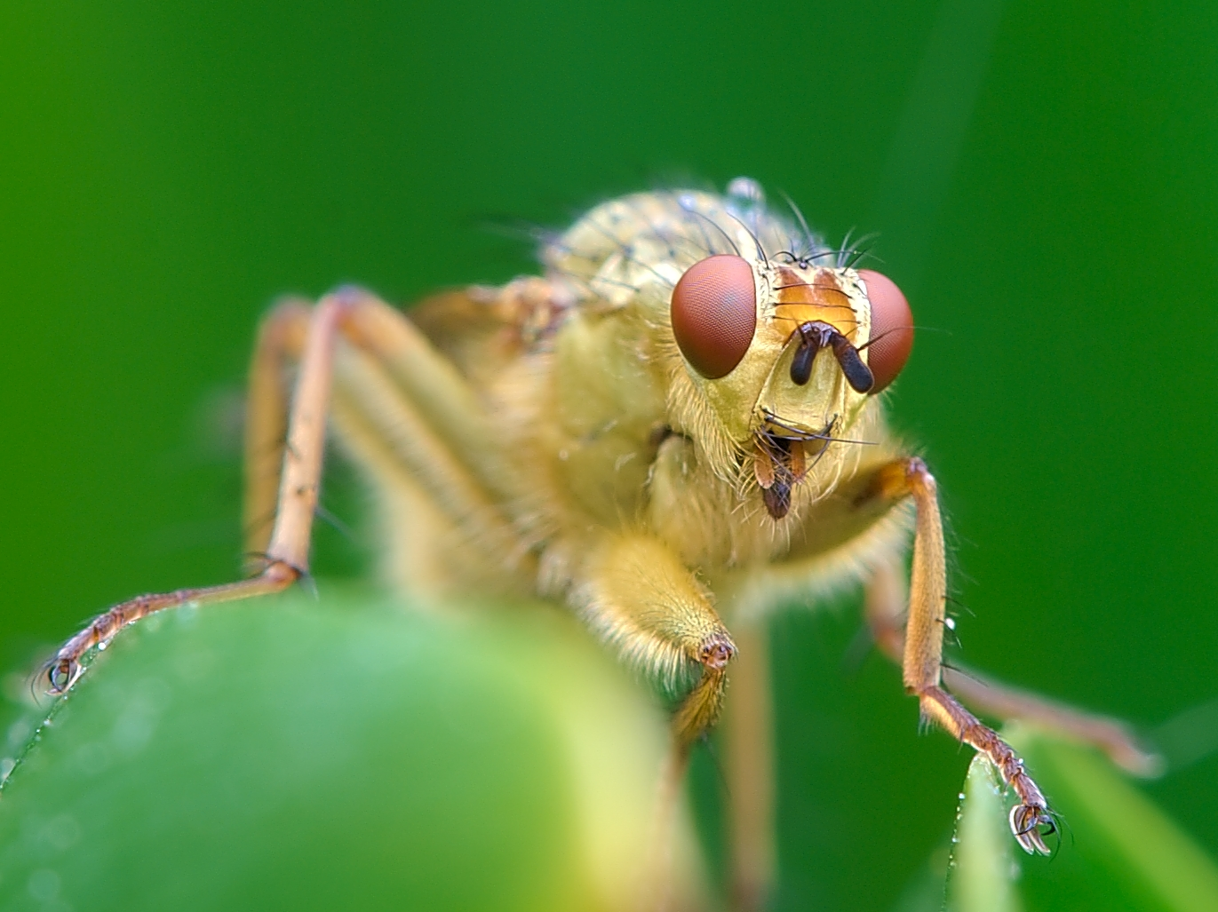 Scatophaga stercoraria